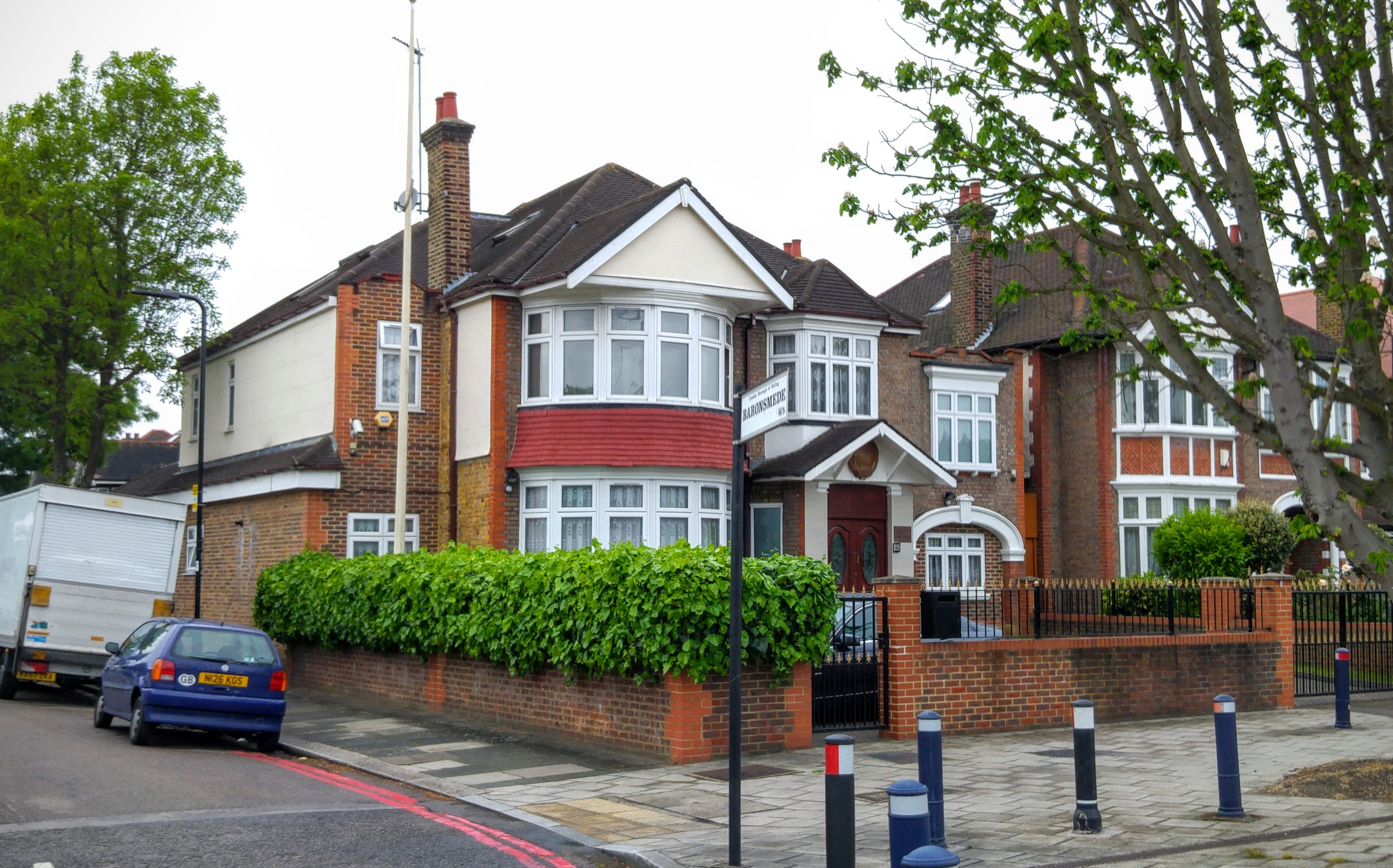 Photograph of the North Korean Embassy in London taken in May 2016, located at 73 Gunnersbury Avenue, London, W5 4LP.